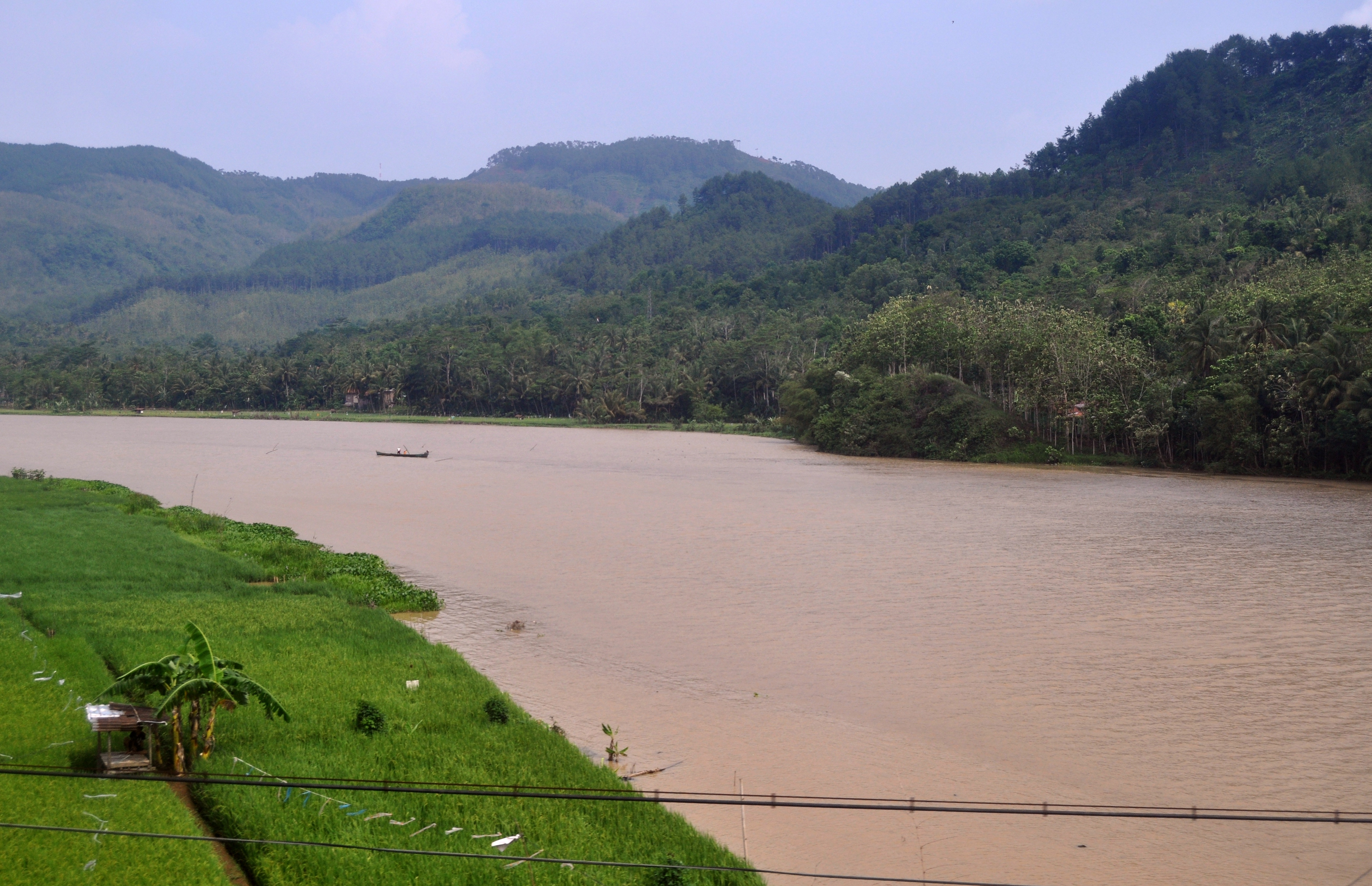 Serayu river near Kebasen in Banyumas Regency, Central Java.